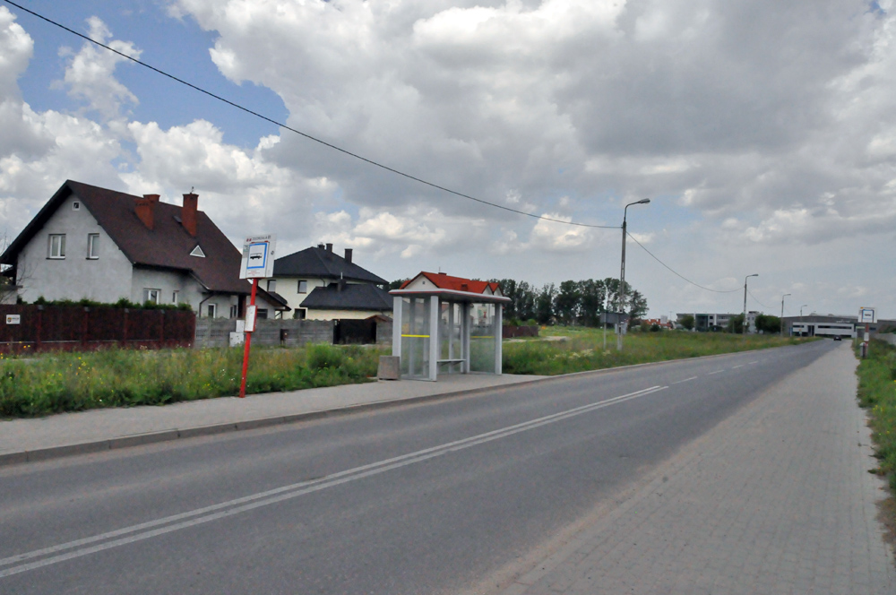 Bus station "Zgorzała"